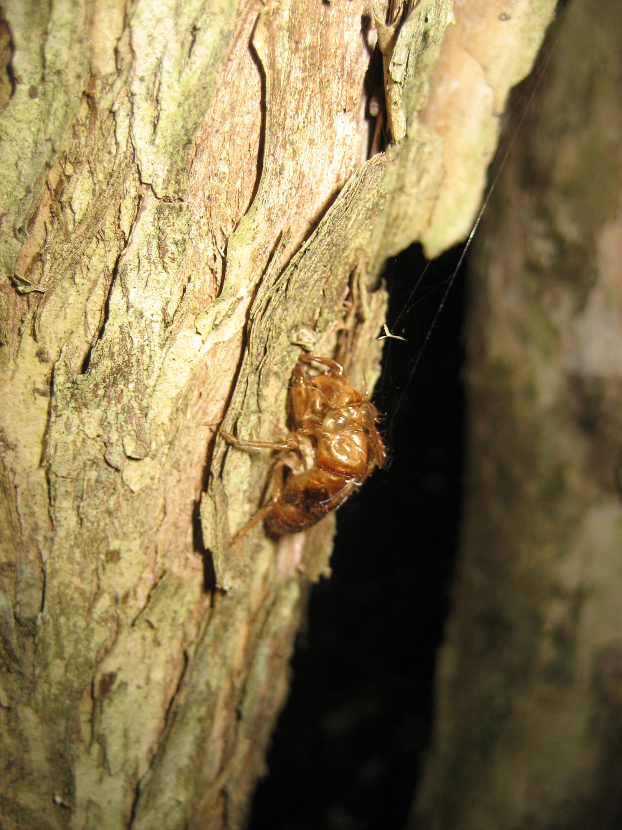 Cast-off insect shell on the bark of a young specimen of Metrosideros bartlettii, Auckland, New Zealand